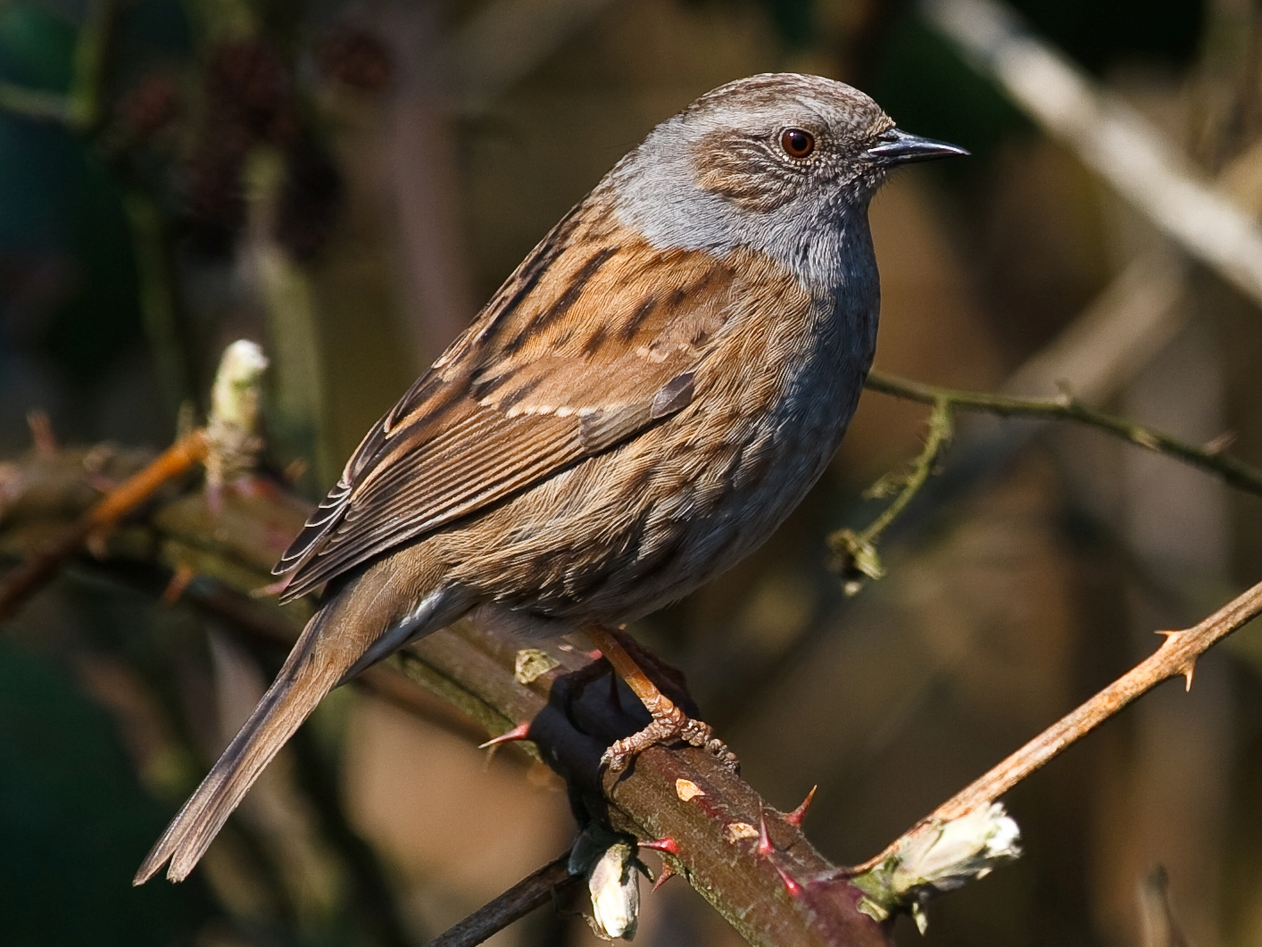 Dunnock on a blackberry twig.